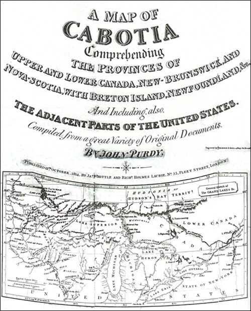 Map of Cabotia covering some Canadian provinces and northern states in the USA.